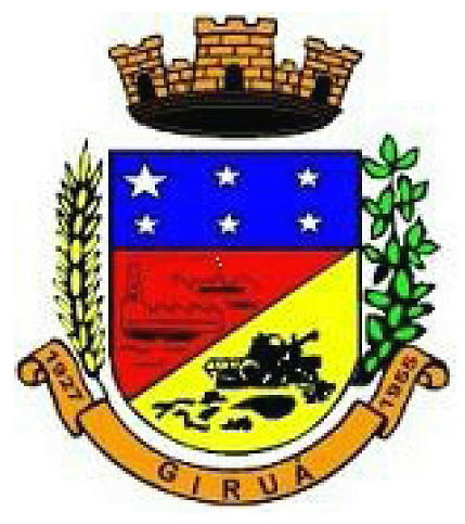 Coat of arms of the city of Giruá, Rio Grande do Sul, Brazil.